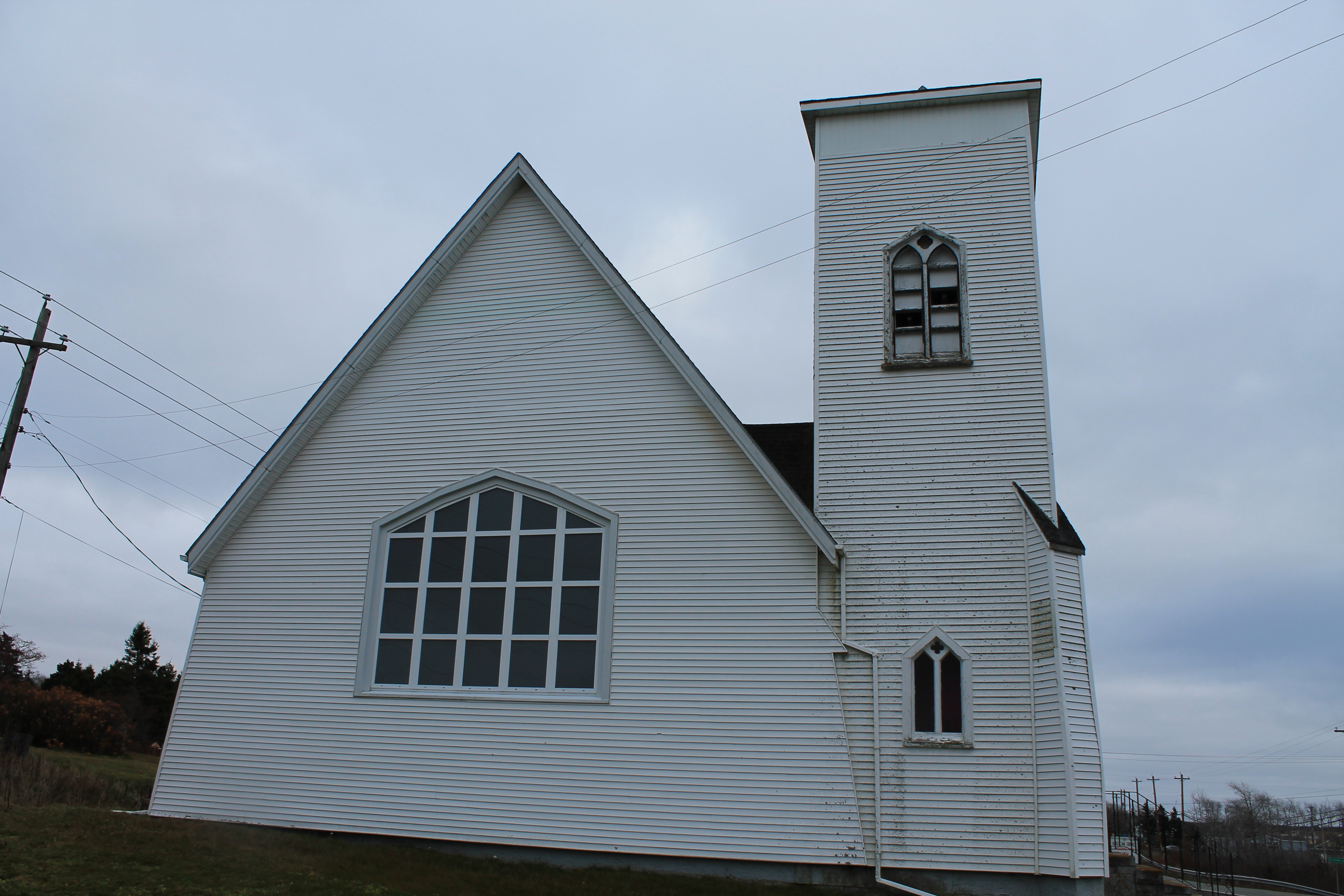 the second building, constructed in 1895 and designed by William Harris.